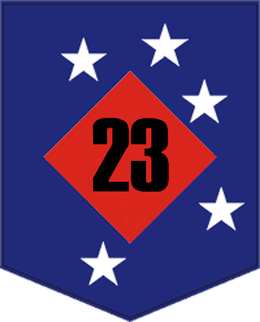 United States Marine Corps 23rd Marine Regiment insignia. Made with Photoshop.